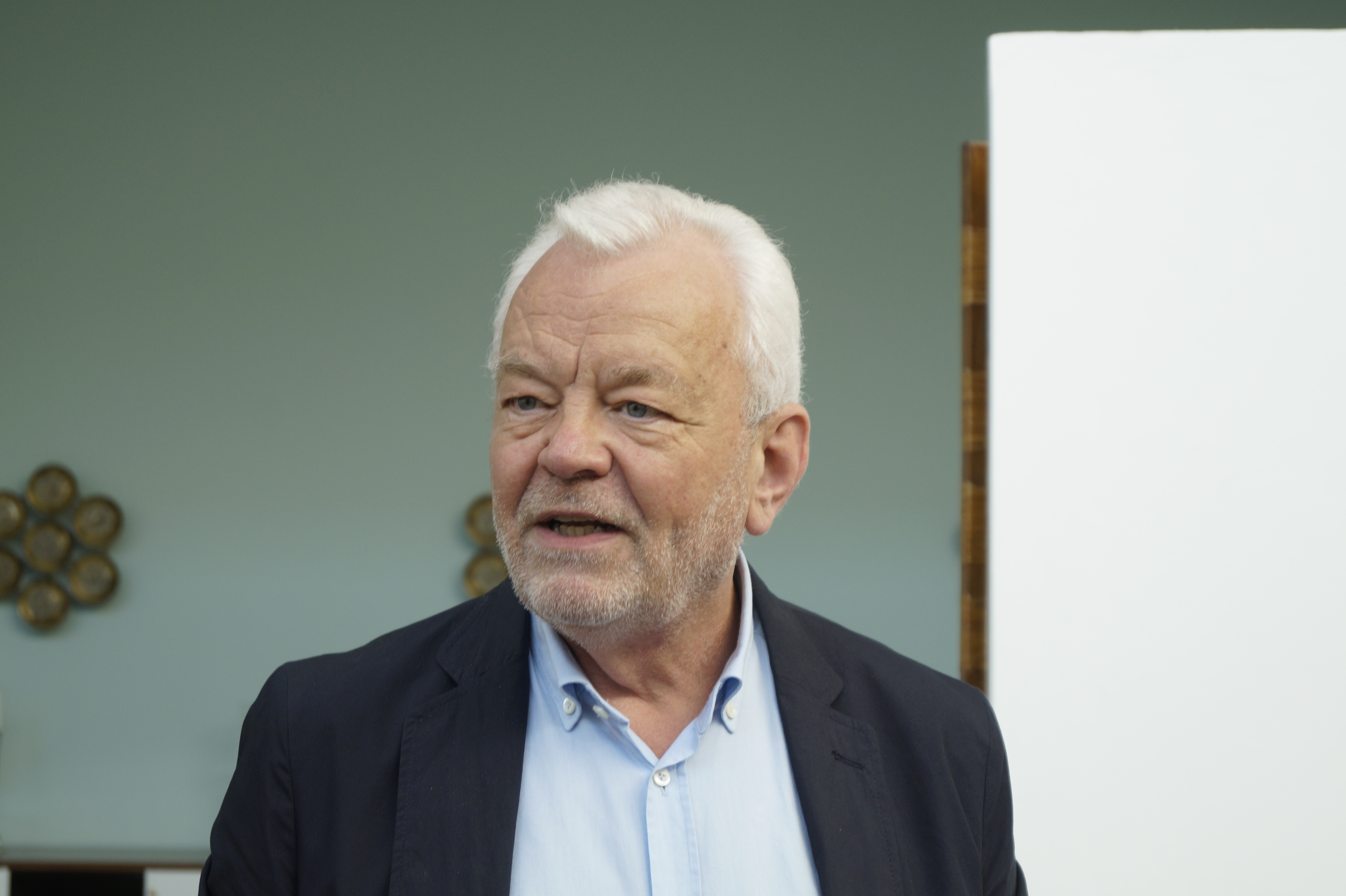 Harald Sandberg: Ambassador Extraordinary and Plenipotentiary of Sweden to India